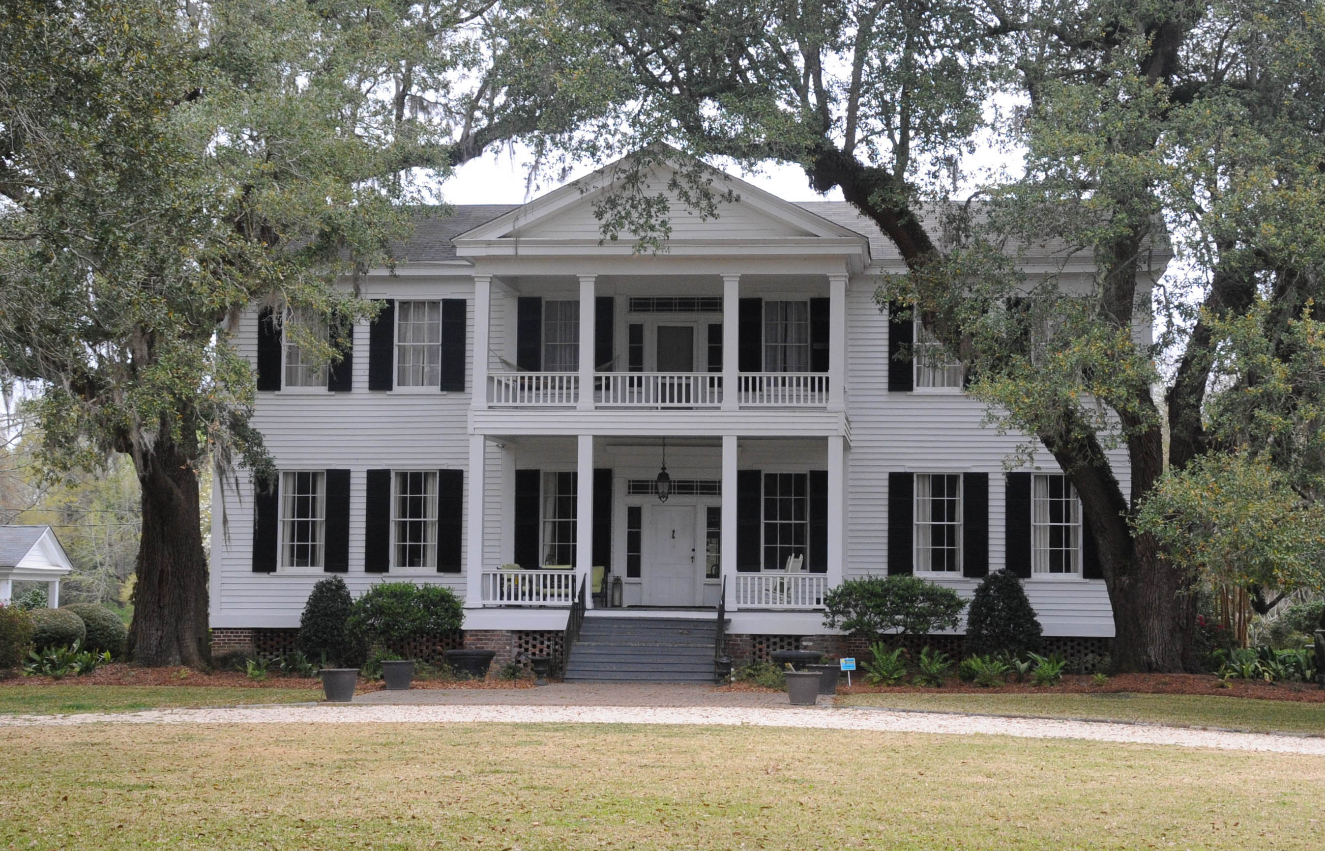 (ALSO KNOWN AS EL RECUERDO) IBUILT ABOUT 1843, AND IS A TWO-STORY, FRAME VERNACULAR GREEK REVIVAL STYLE DWELLING.